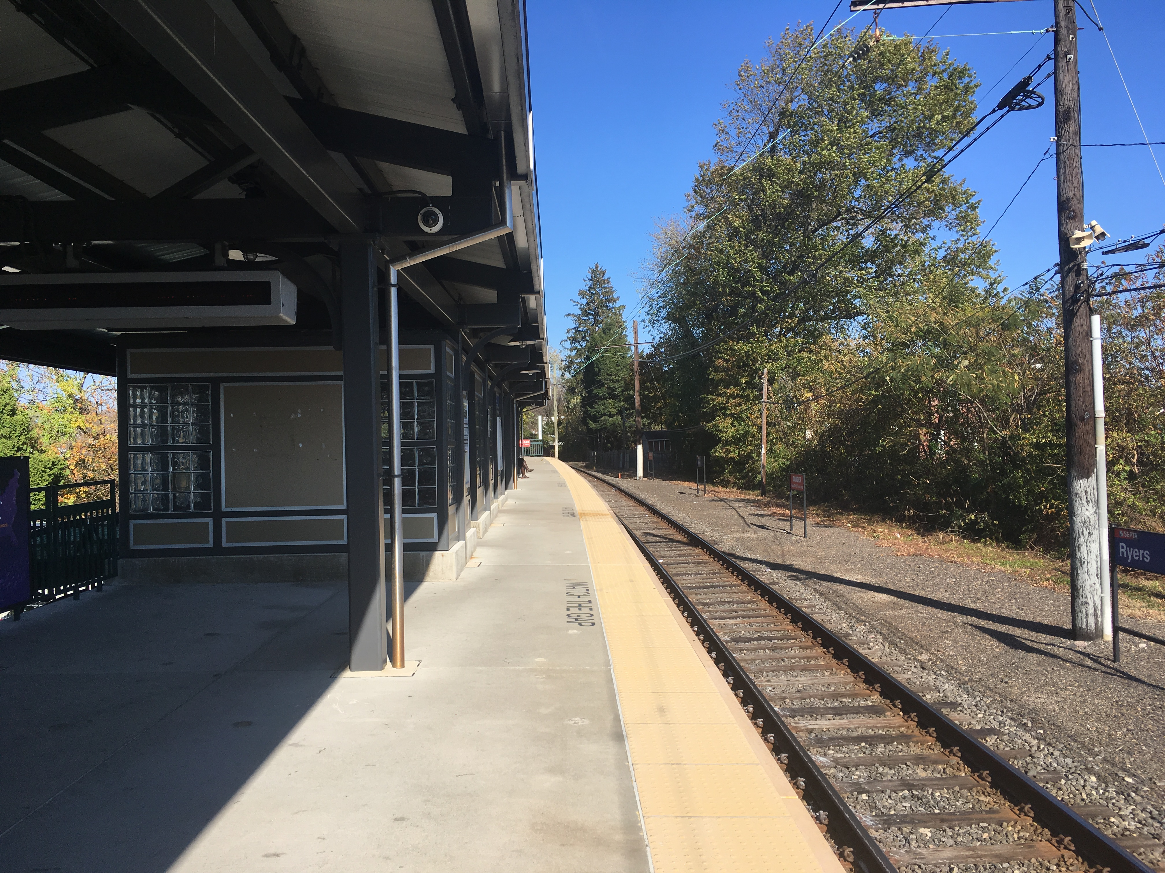 The Ryers station along SEPTA’s Fox Chase Line in Philadelphia, Pennsylvania